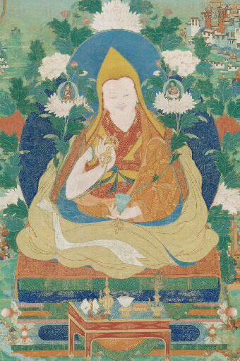 5th Dalai Lama, b.1617 - d.1682